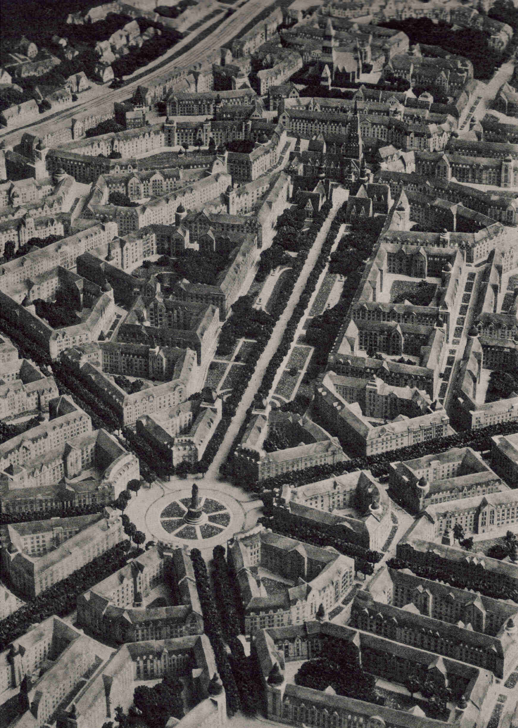 Photograph of a model of the Munksnäs-Haga plan